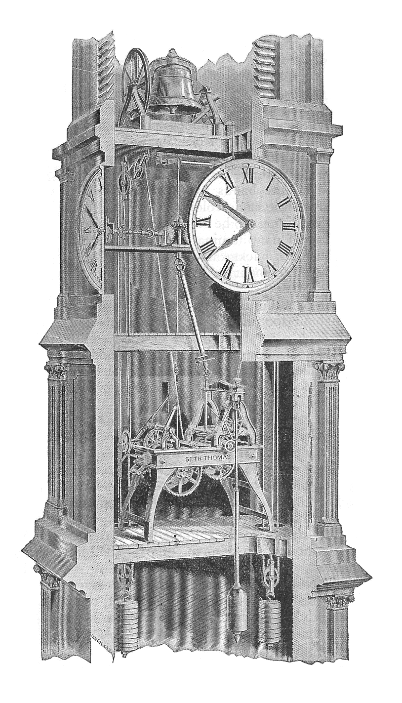 Cutaway drawing of a tower clock, showing the movement, face, bell, driving weights, and lines linking them, from a book on clocks. The turret clock movement (center) kept time with a long pendulum, and was powered by two large hanging weights (bottom): one to run the timing train and one to run the striking mechanism. The movement turned a vertical shaft that through bevel gears turned four horizontal shafts to turn hands on the four clock faces on the sides of the tower. The movement also struck the hours on the bell (top). Alterations to image: removed yellowing at corners of page, increased contrast, and removed scanning artifacts due to bleed-through of text on opposite side of page.